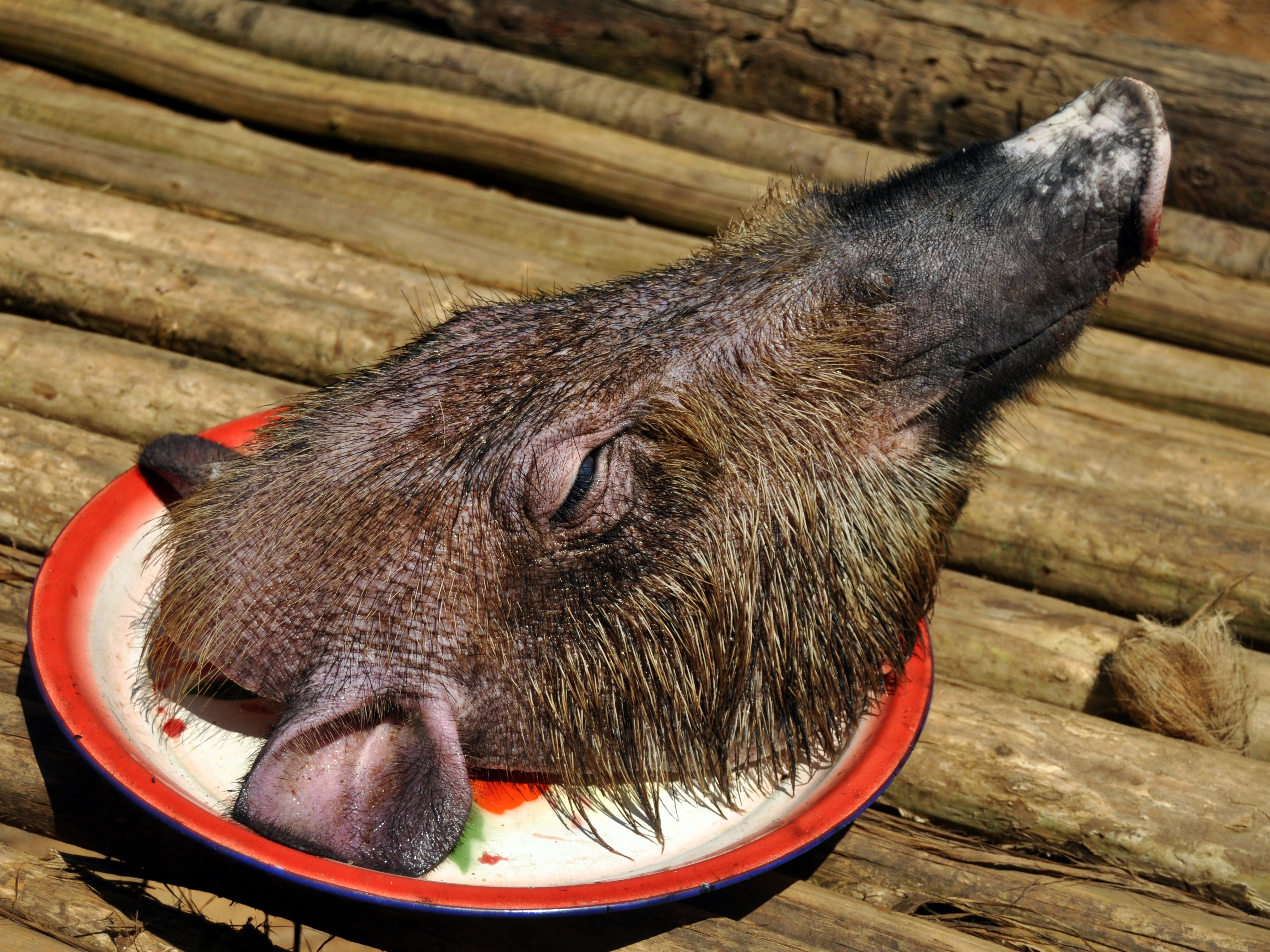 Bornean bearded pig (Sus barbatus), head on the dish. Hunted by Dayak Pesaguan people in Ketapang Regency, West Kalimantan.